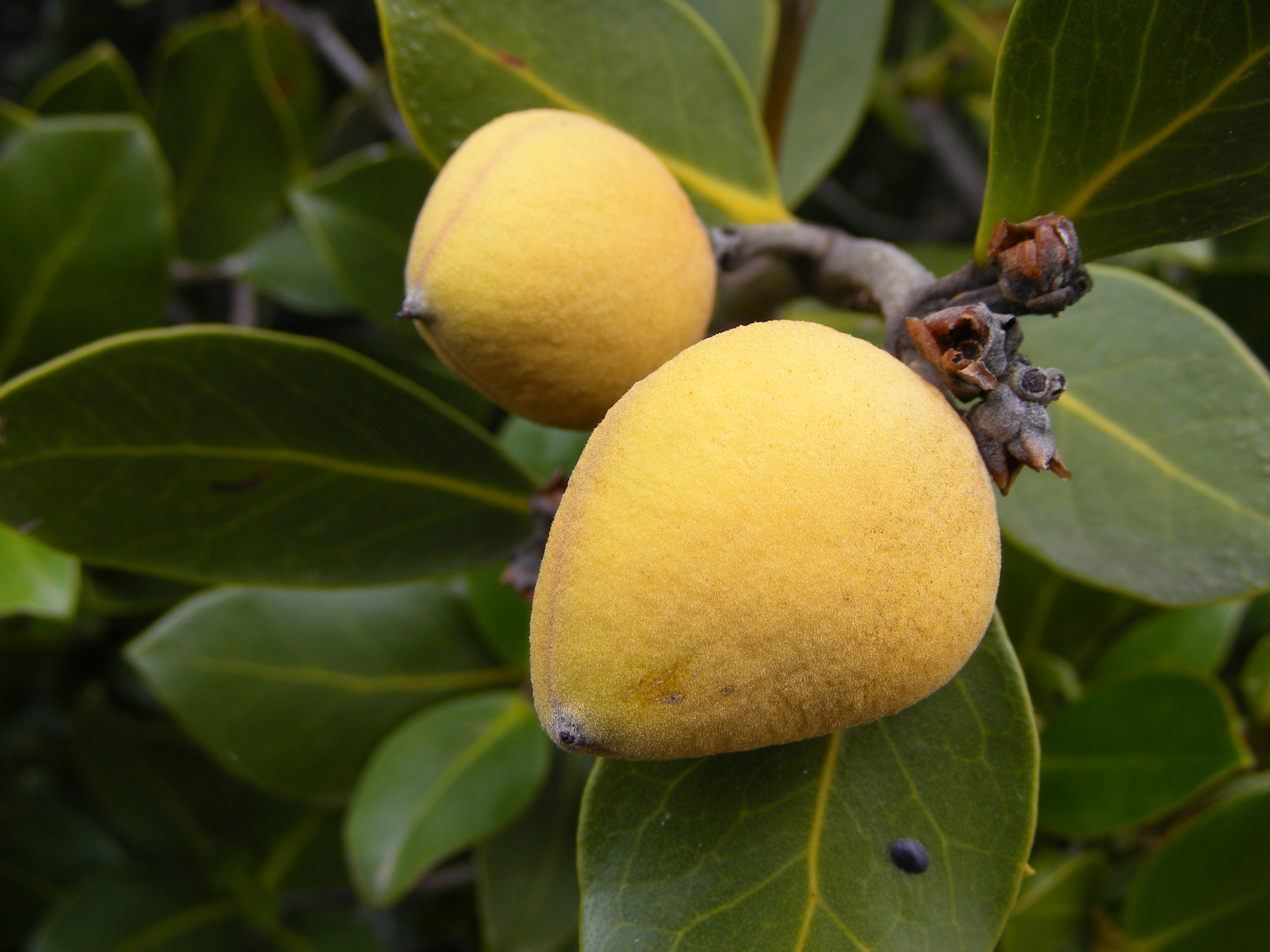 Fruits on the Gray Mangrove (Avicennia marina var resinifera) Mangroves at the intersection of Port River and Westlakes, Port Adelaide, Adelaide, South Australia